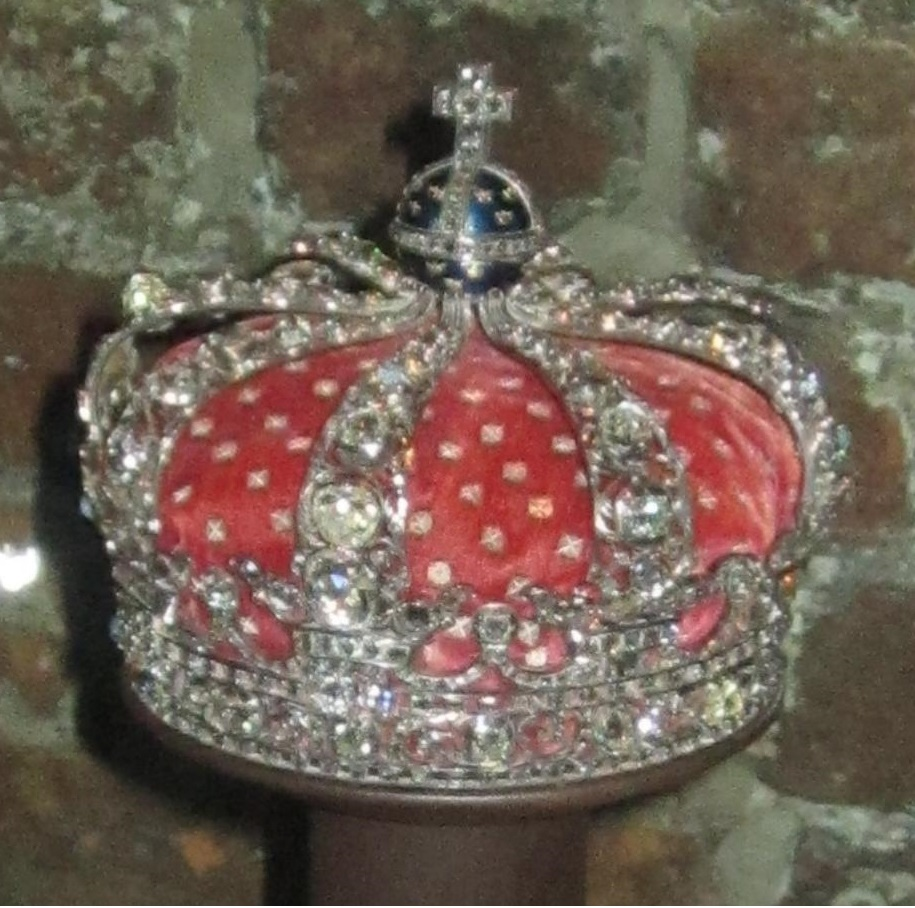 Crown of the Queen of Sweden from 1771 as shown to public on National DayPlace: Royal Treasury, Stockholm Palace, Sweden